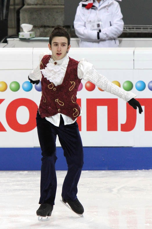 Ali Demirboga at the 2011 European Figure Skating Championships.